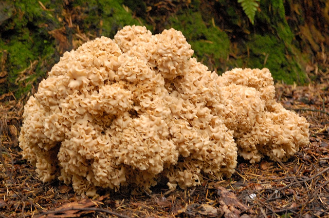 Sparassis crispa from Commanster, Belgium. The determination of the species shown in this picture has been verified.